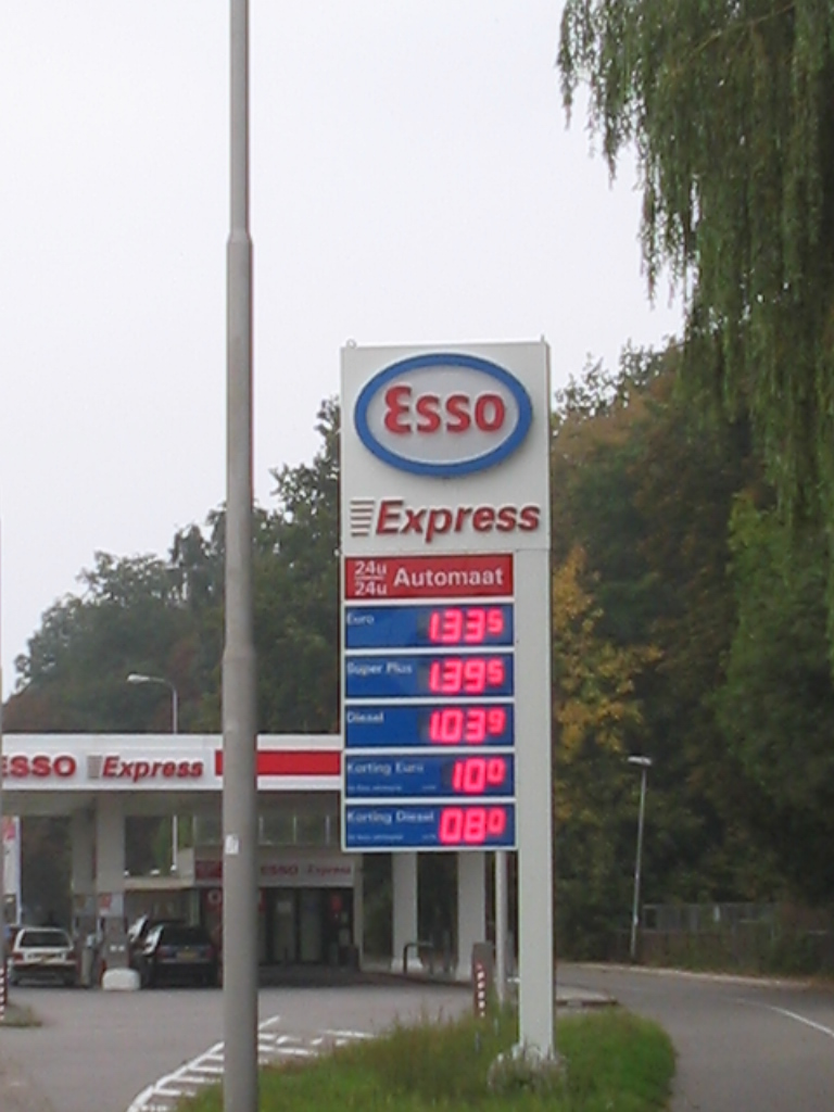 Esso express near Utrecht, Netherlands